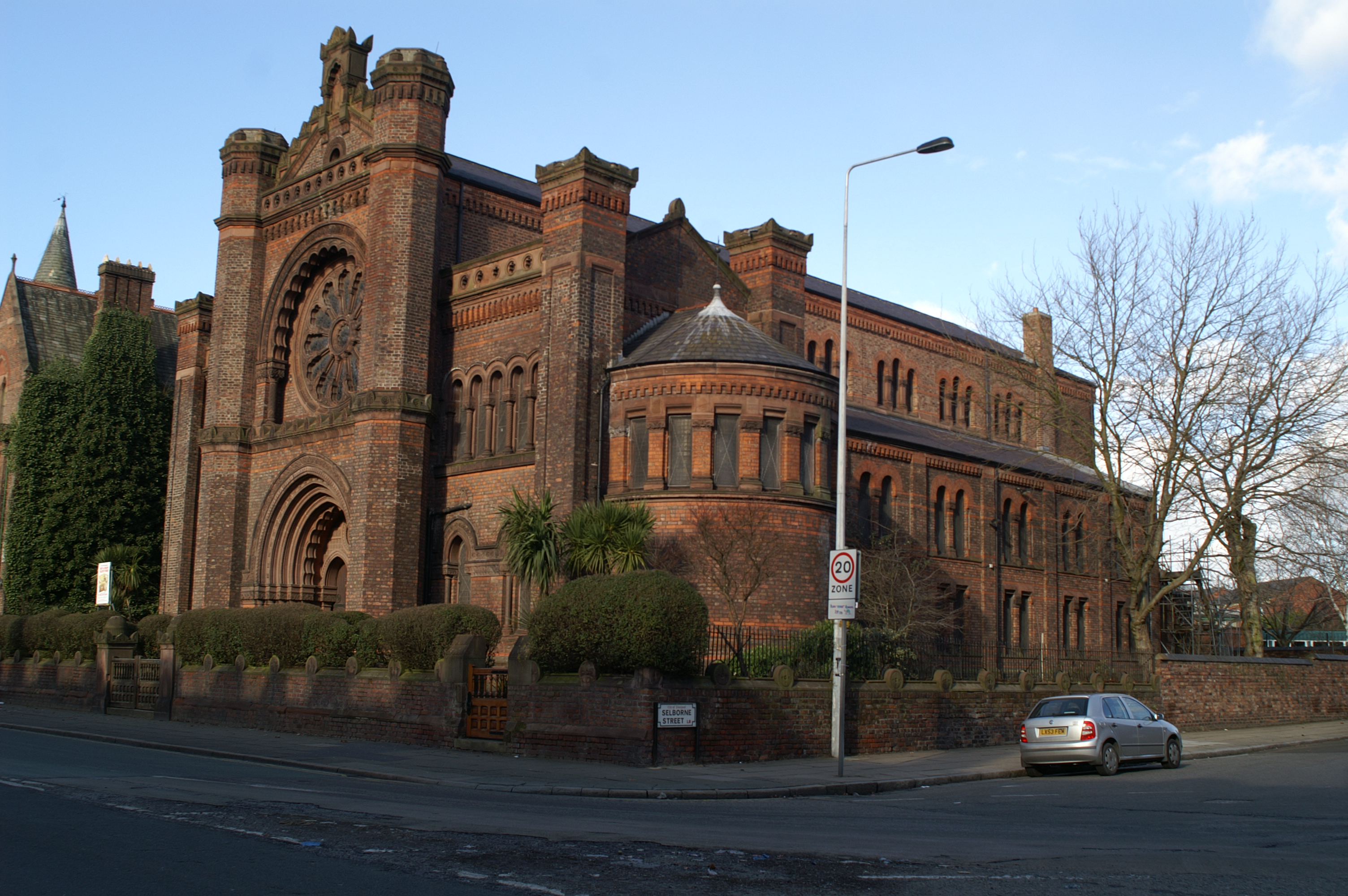 The Synagogue of the Liverpool Old Hebrew Congregation In Princes Road, Toxteth